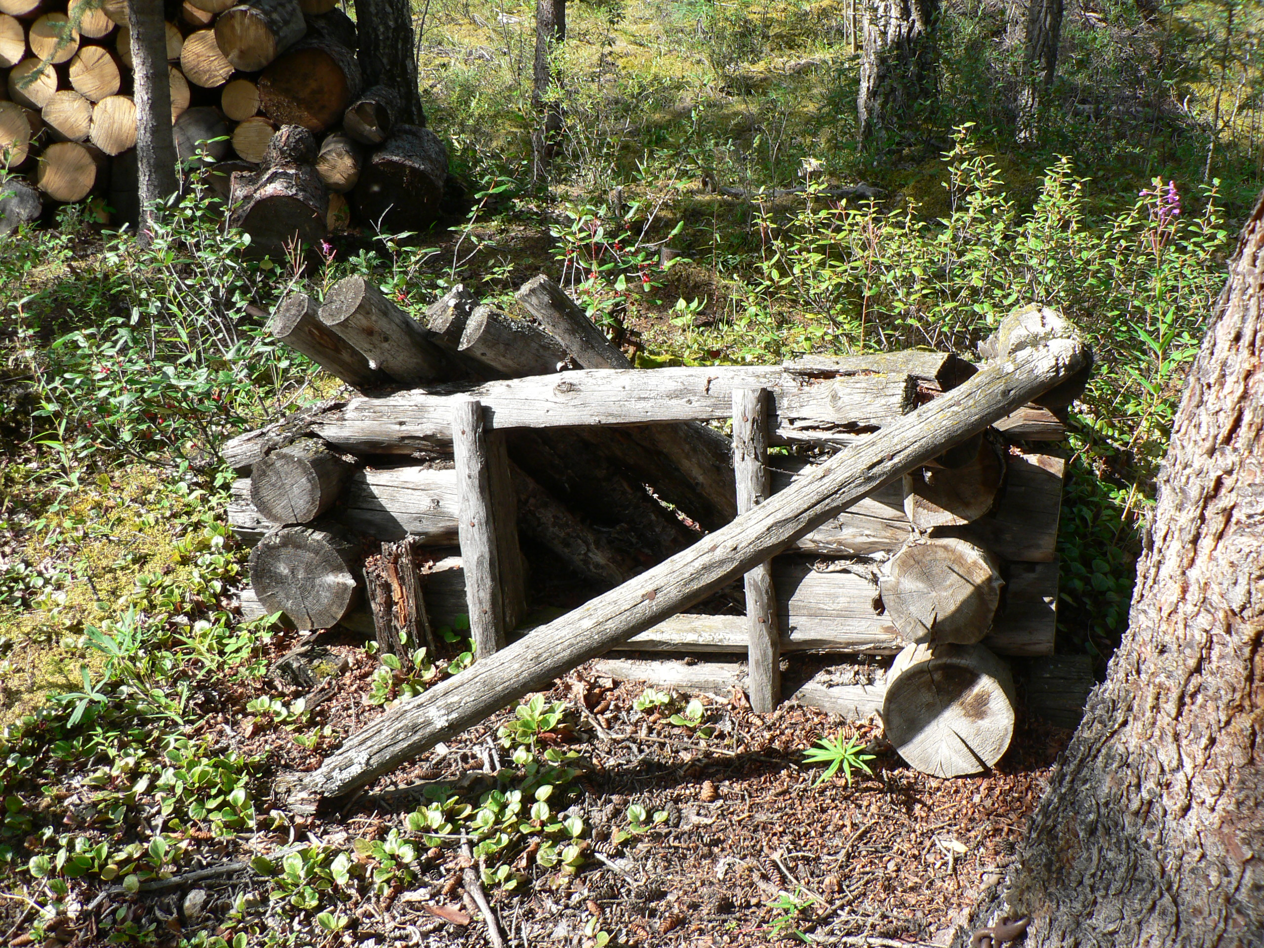 Dog house, Lower East Fork Ranger Cabin, Denali National Park, Alaska, USA